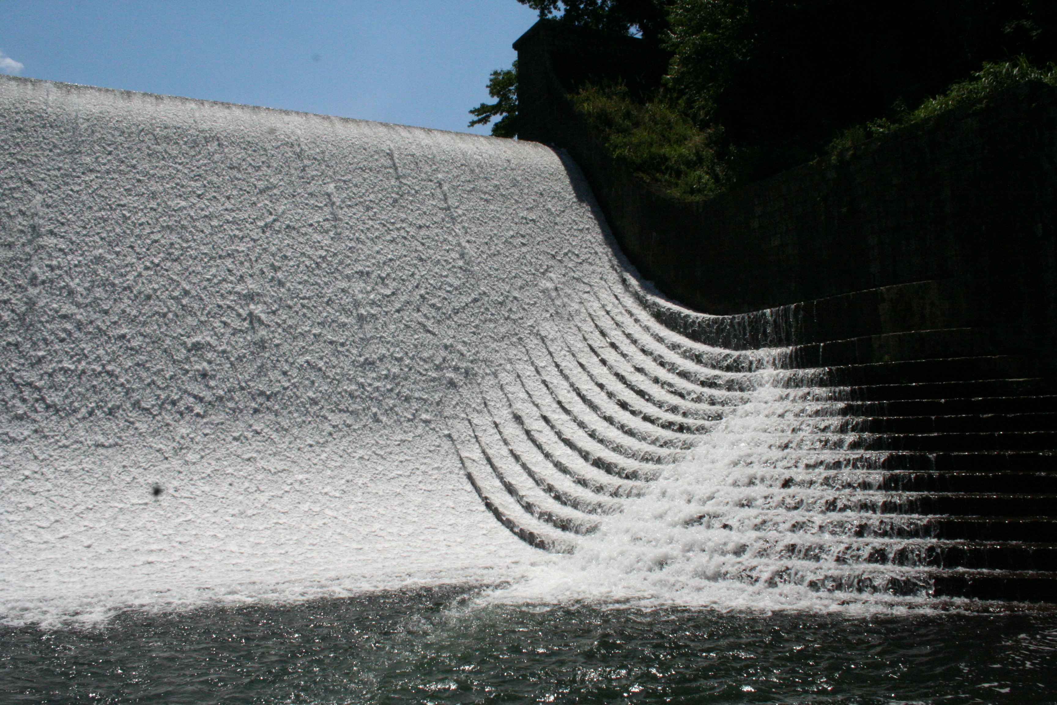 Description: Hakusui Dam(1938). Taketa-city, Oita Prefecture, Japapn. Important Cultural Property (Civil Engineering) of Japan. 白水溜池堰堤(1938竣工)左岸階段状流路。大分県竹田市。国の重要文化財。 Source: self-made Date=2007/08/17 Photographer: Tsutsui Mizuki